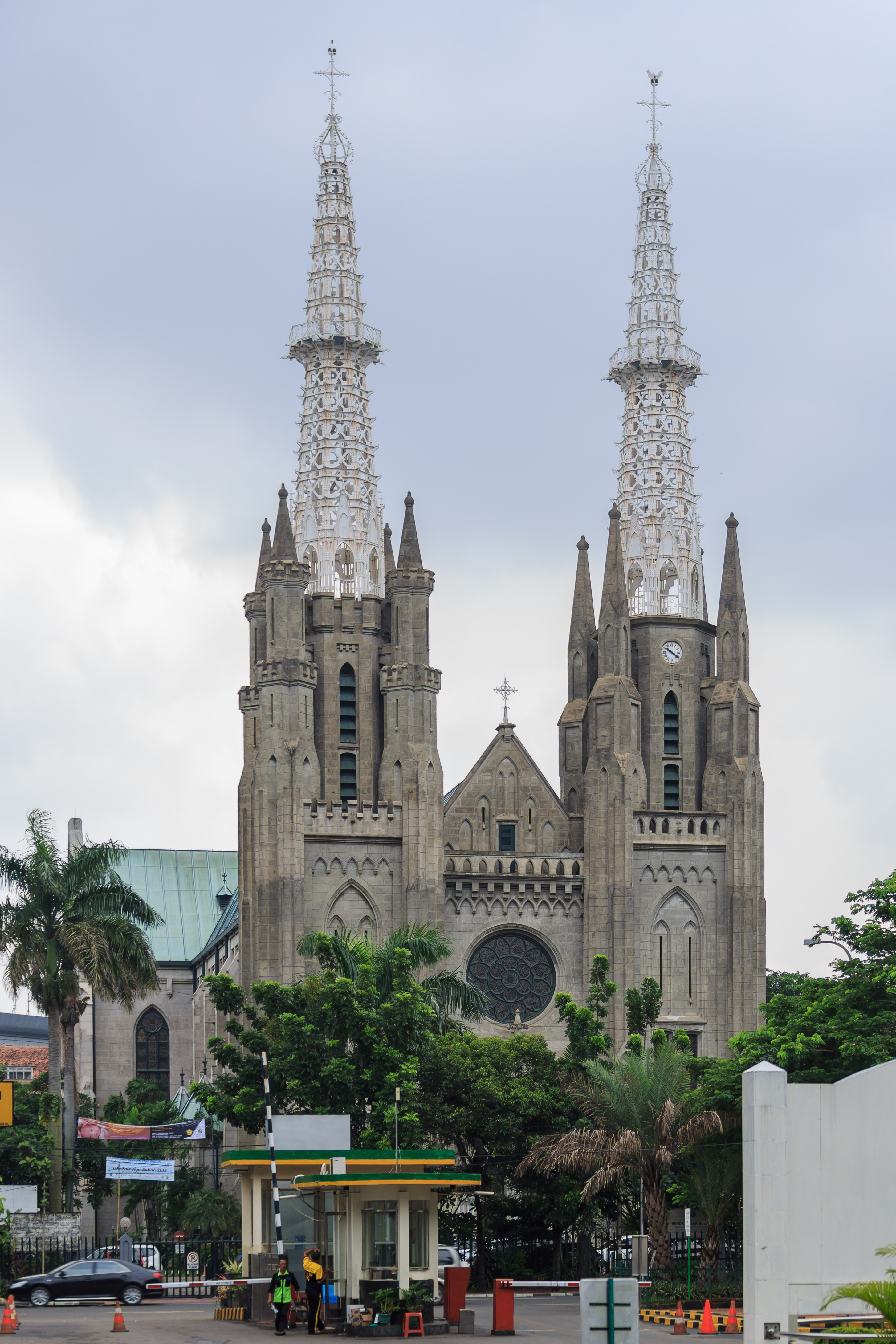 Jakarta, Indonesia: Jakarta Cathedral, seen from the neighboured Istiqlal Mosque.